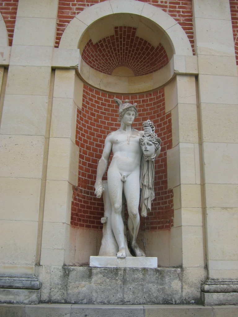 Statue, Galerie des Cerfs au château de Fontainebleau, aspect extérieur